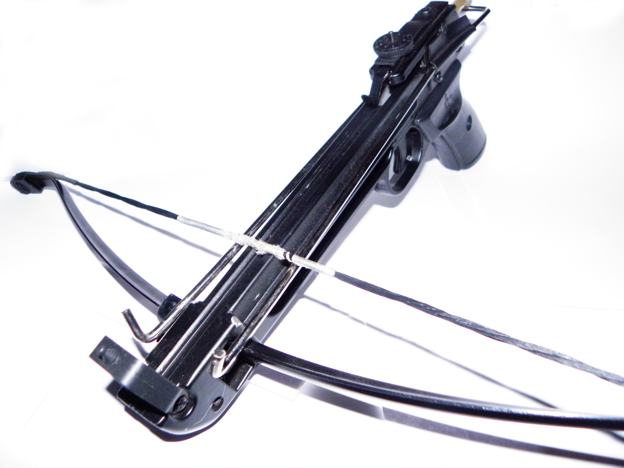 A 50lb Pistol Crossbow